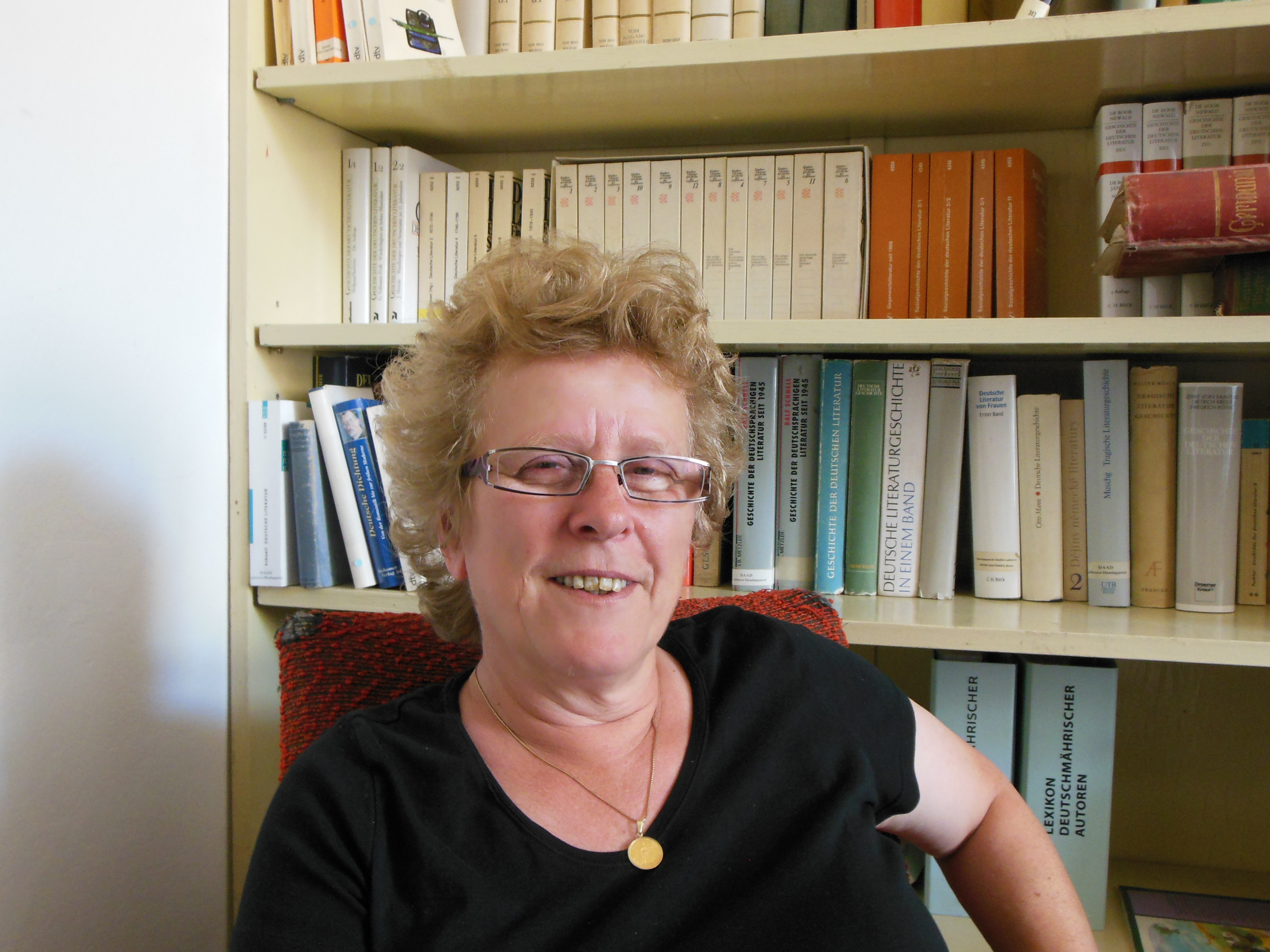 Ingeborg Fialová, Czech professor of German Studies.